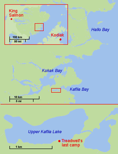 File shows the area where Treadwell used to stay in summer, and where he installed his last camp.